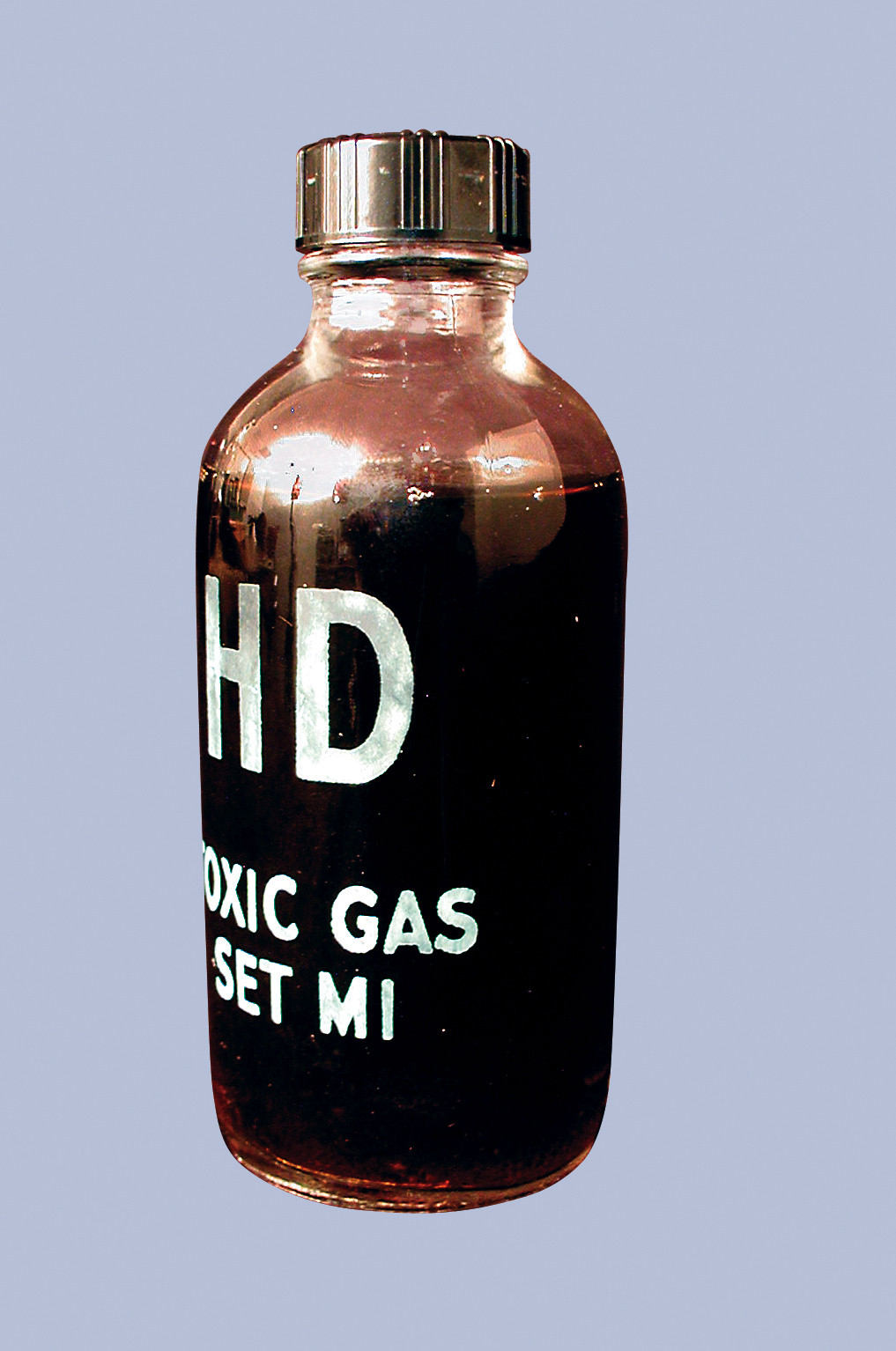 Chemical agent identification sets contained glass ampoules, vials or bottles (shown) containing 4 ounces or less of chemicals or chemical agent. The sets enabled military and civilian personnel to learn safe handling and identification of chemicals and chemical agents. The Rapid Response System, a mobile treatment system used for on-site destruction of these samples, recently completed the larger of its two campaigns, destroying 4,906 of the 5,387 items in the arsenal’s inventory. This bottle is from a CAIS known as a "toxic gas set" and contains live sulfur mustard agent (HD). (Photo courtesy U.S. Army)